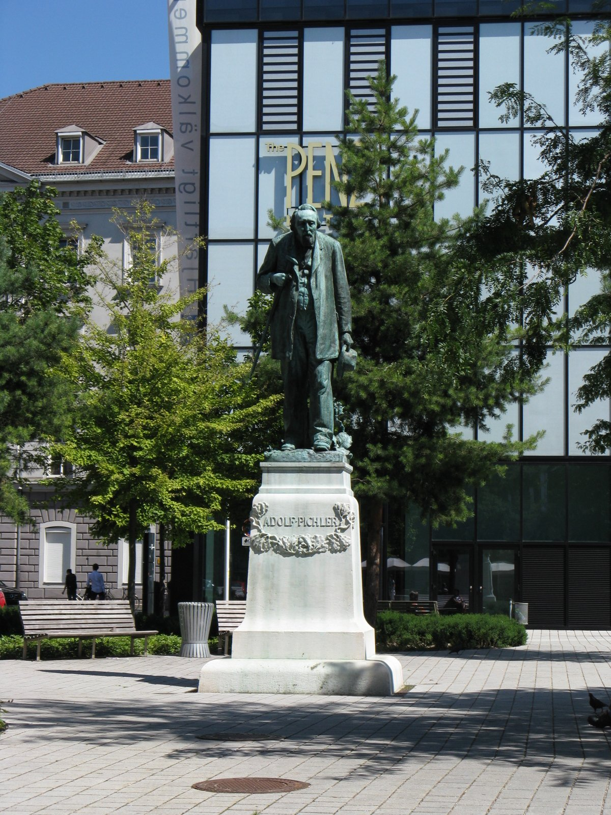 Adolf Pichler monument in Innsbruck